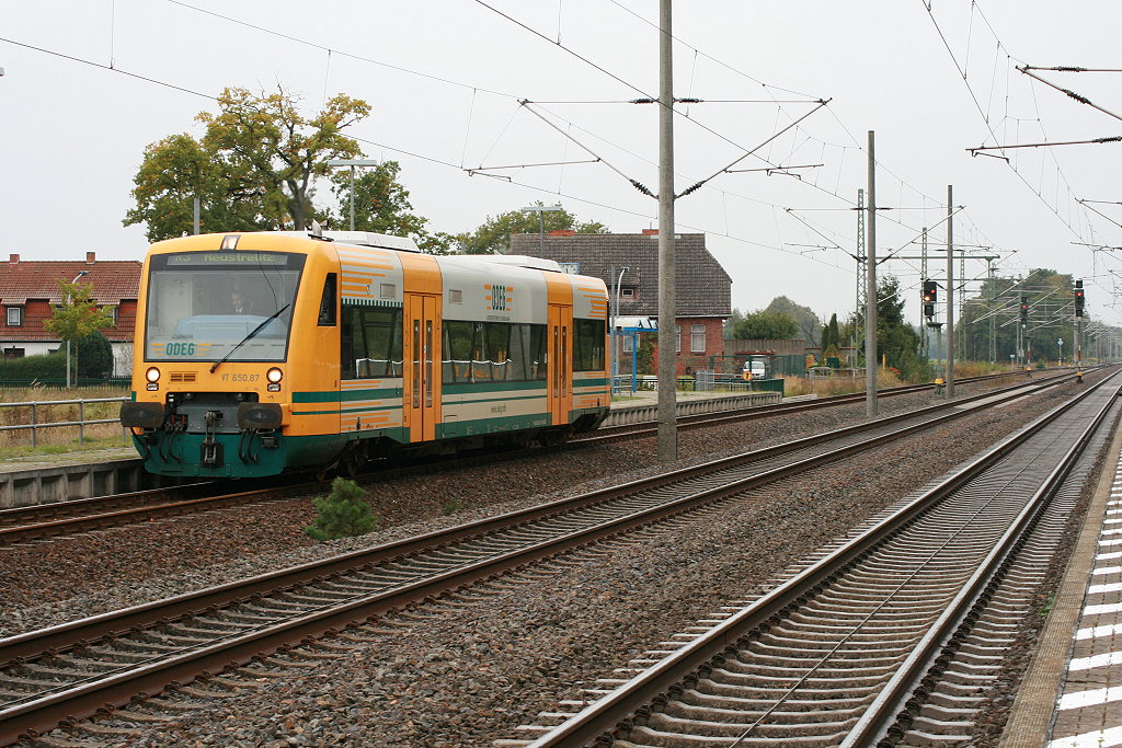 ODEG-Regioshuttle in Train Station Jasnitz.